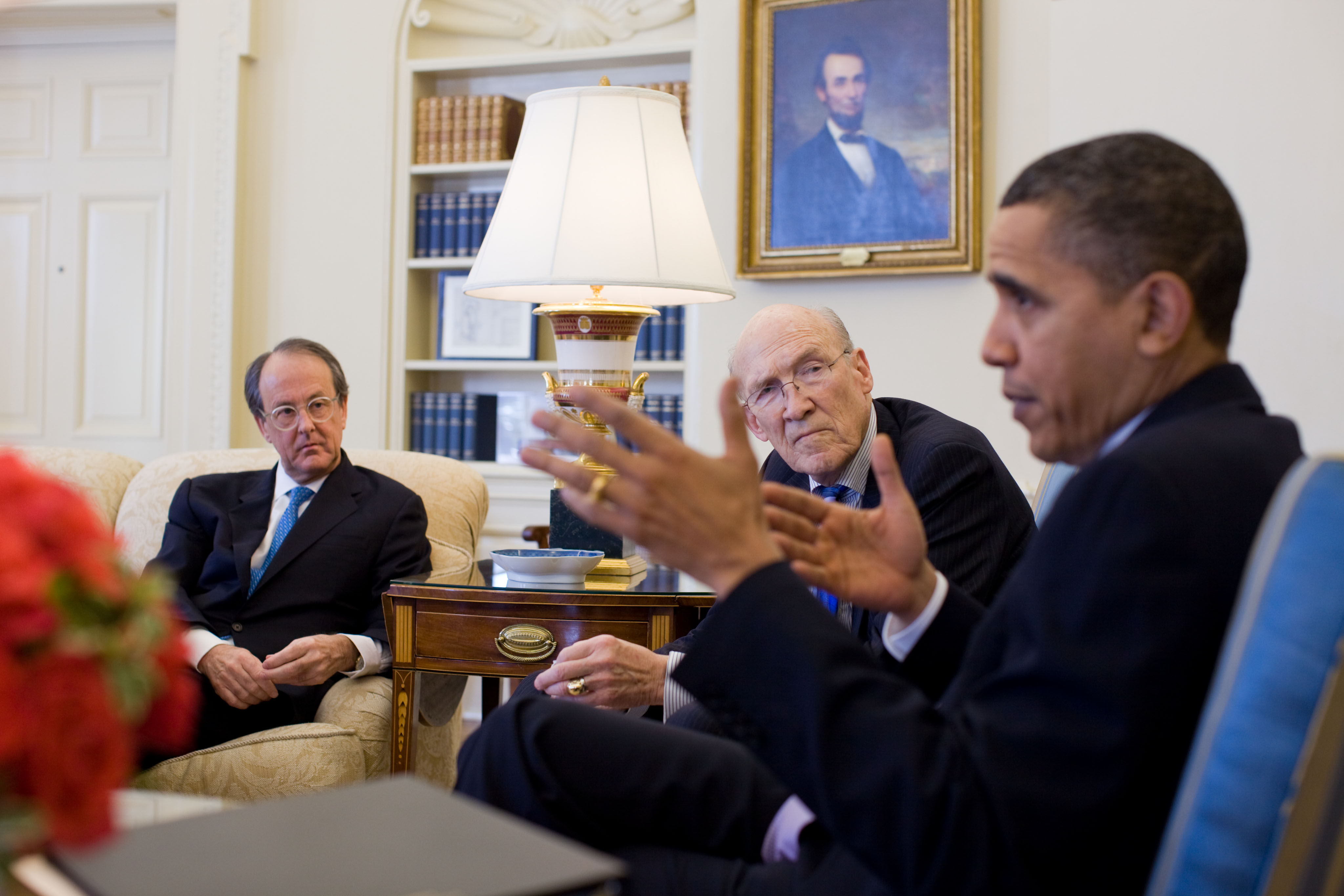 President Barack Obama meets with National Commission on Fiscal Responsibility and Reform co-chairs Erskine Bowles, left, and Alan Simpson in the Oval Office, Feb. 18, 2010, before the public announcement. (Official White House Photo by Pete Souza)